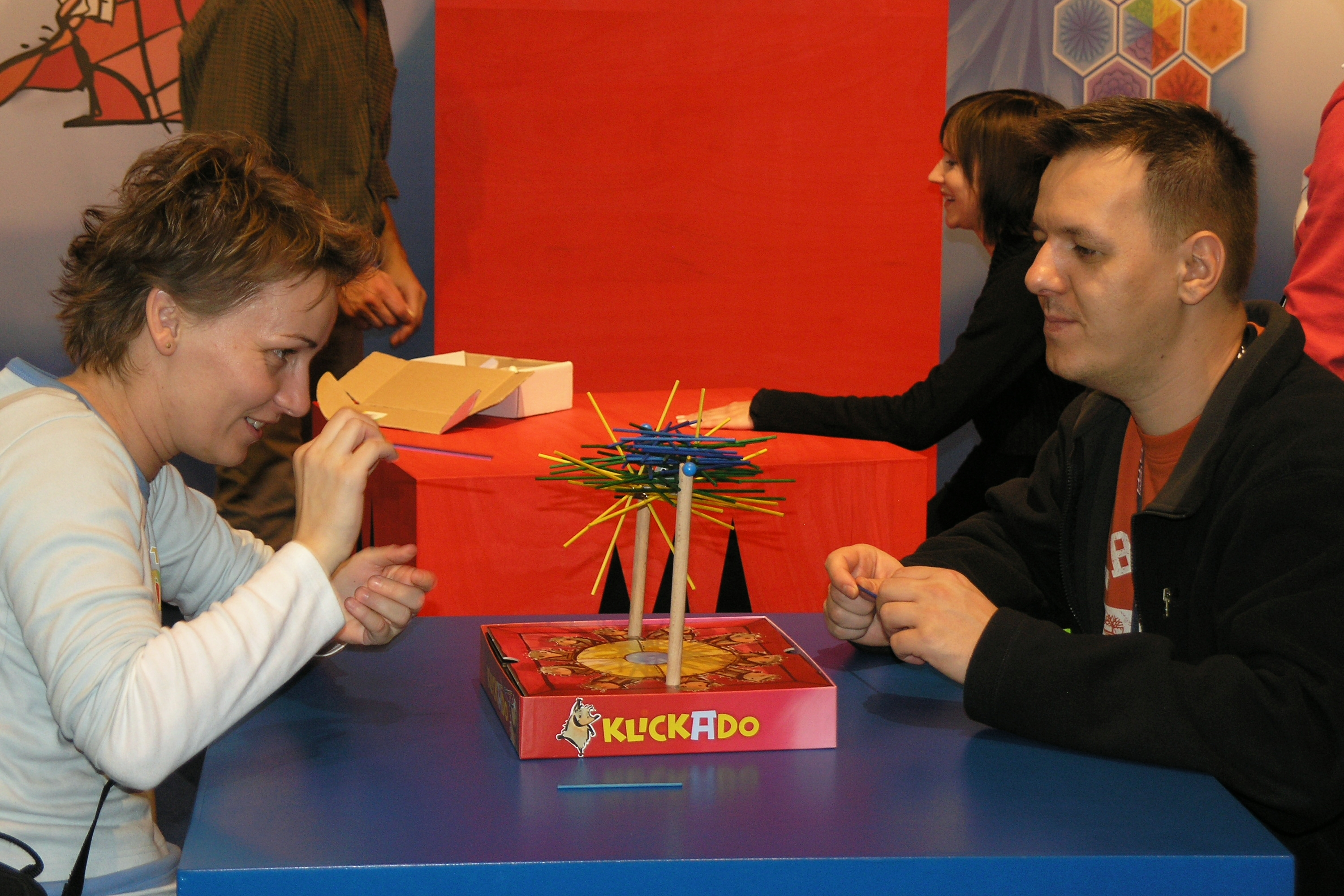 Personality rights warning Although this work is freely licensed or in the public domain, the person(s) shown may have rights that legally restrict certain re-uses unless those depicted consent to such uses. In these cases, a model release or other evidence of consent could protect you from infringement claims.